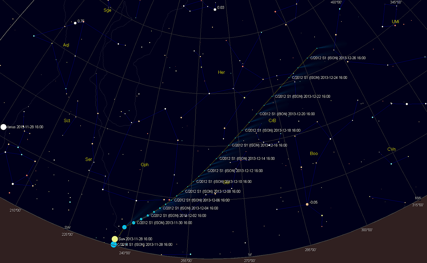 Screenshot taken from software Cartes du Ciel showing position of Comet C/2012 S1 (ISON) 30 days after perihelion as visible from Zagreb, Croatia, at 16:00 CET (15:00 UTC).